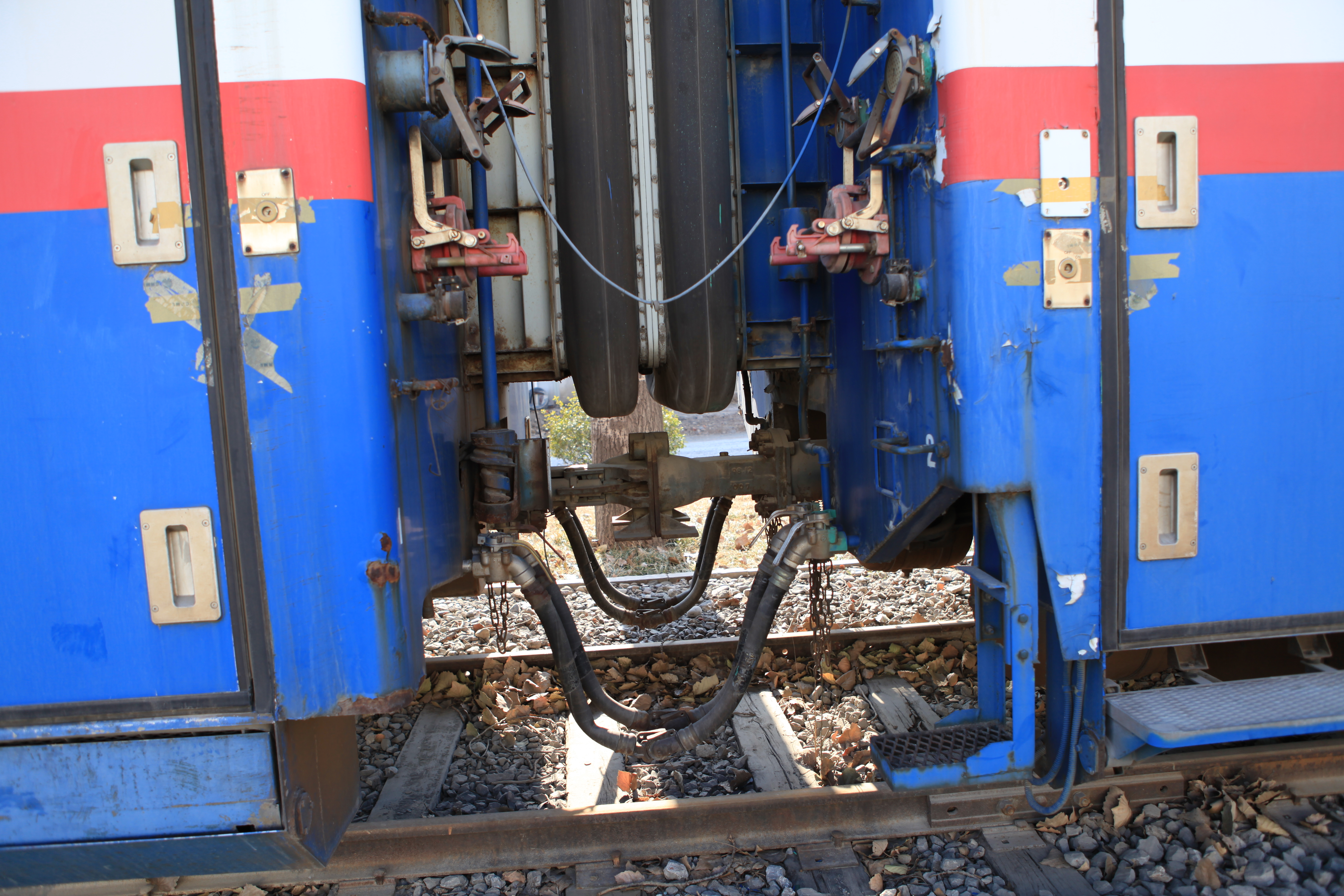 DDJ1 Conjunction